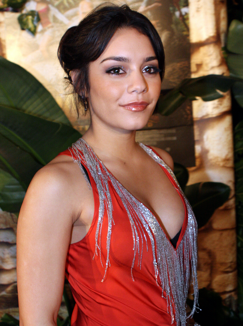 Vanessa Hudgens at the Journey 2: The Mysterious Island, Film premiere in Sydney 2012.